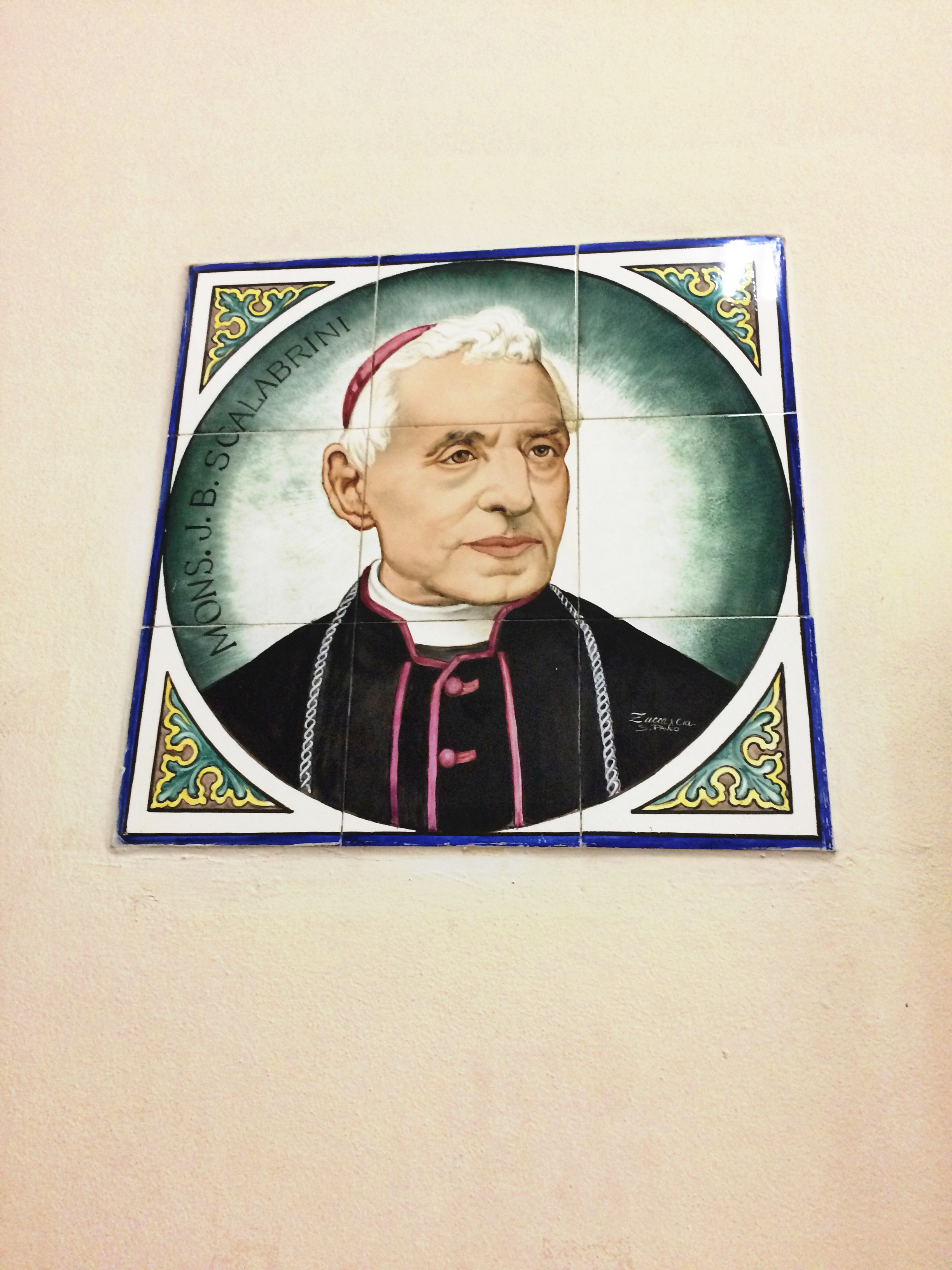 Dom João Batista Scalabrini, em São Paulo (SP), Brasil.